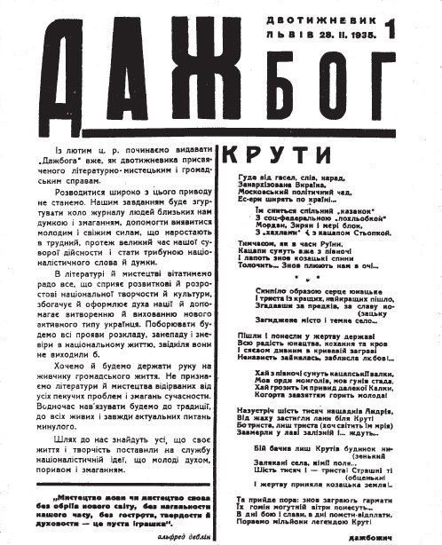 Cover of magazine "Dazbog", printed in Lviv in 1935.